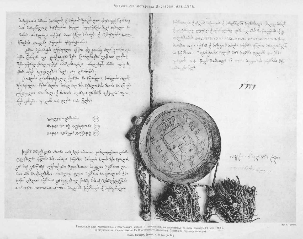 The Treaty of Georgievsk of 1783, ratified by Erekle II of Georgia. An illustration from Letopis' Gruzii, edited by B. Esadze, 1913.